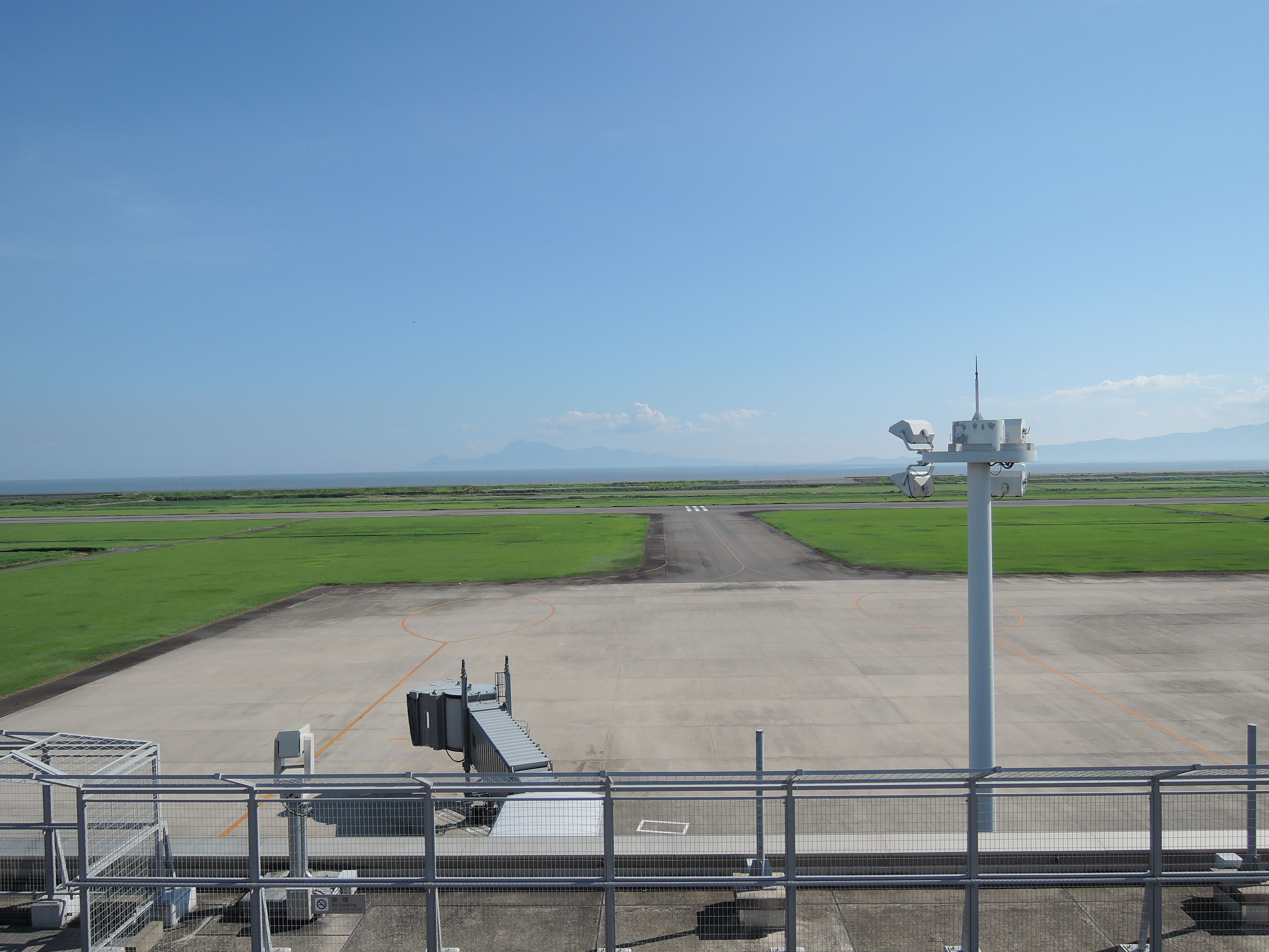 Saga Airport runway, taxiway and tarmac.